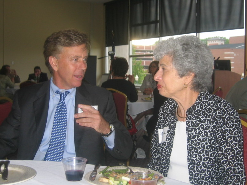 Former U.S. Senate Candidate Ned Lamont and former CCSU President Merle Harris have a lively chat before Ned's address to a gathering at Central Connecticut State College about the challenges our state faces and the role CCSU can take in addressing these challenges